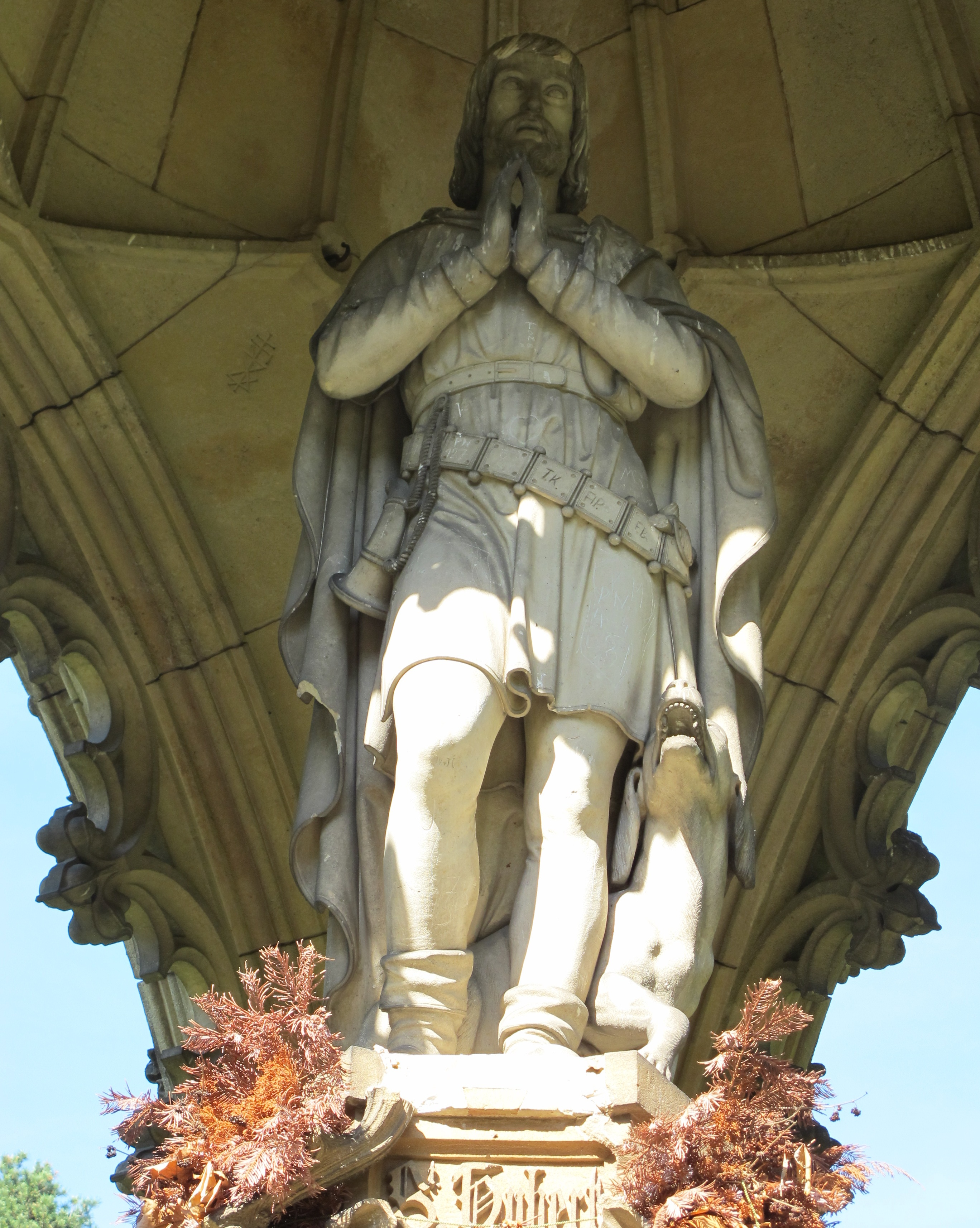 St Hubert Chapel in Lednice–Valtice Cultural Landscape, Břeclav District